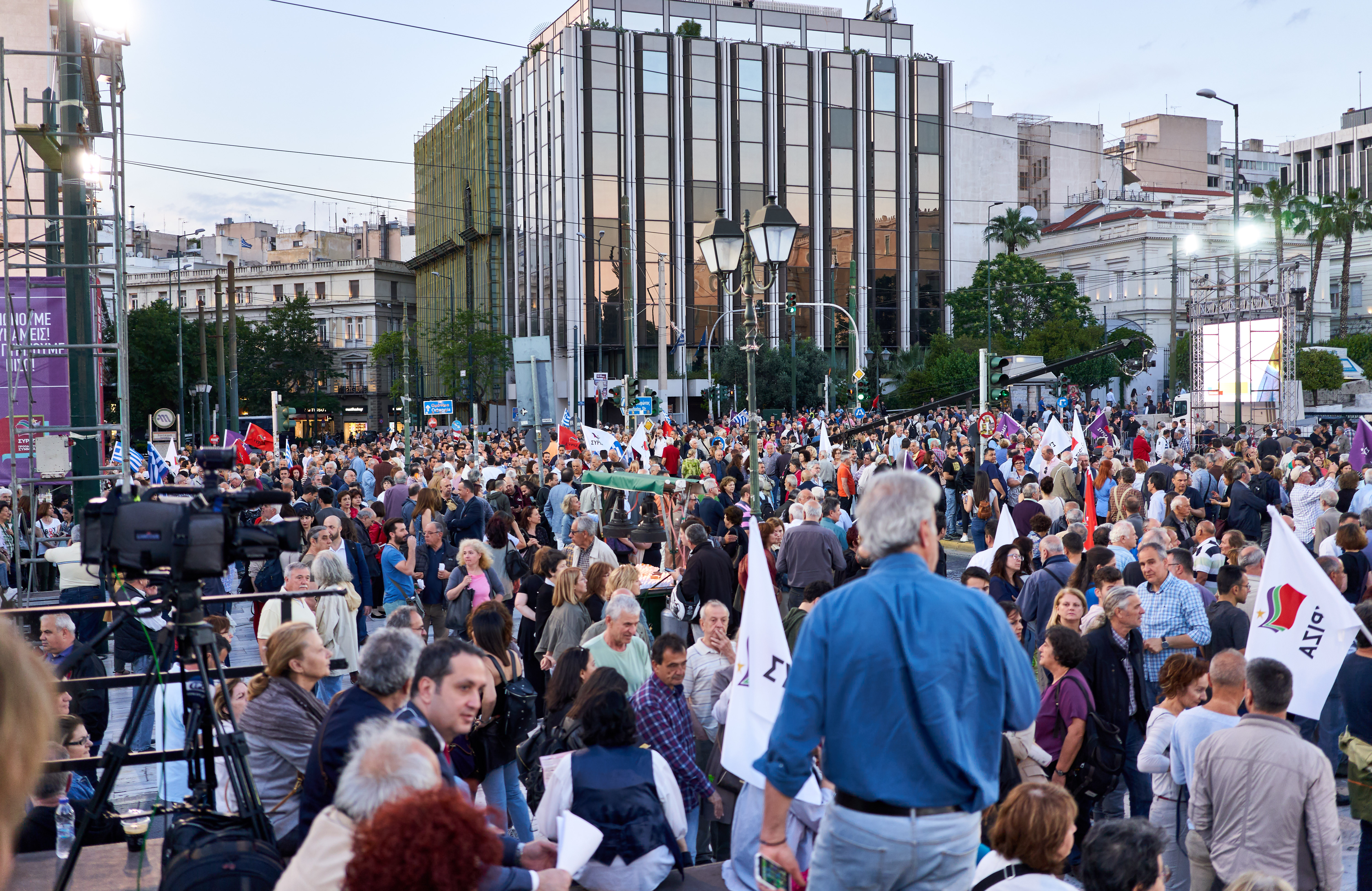 Syriza party rally. Panepistimiou Street, May 24, 2019. Athens, Greece.